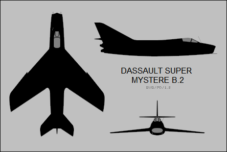 Plan-view silhouettes of the Dassault Super Mystere B.2